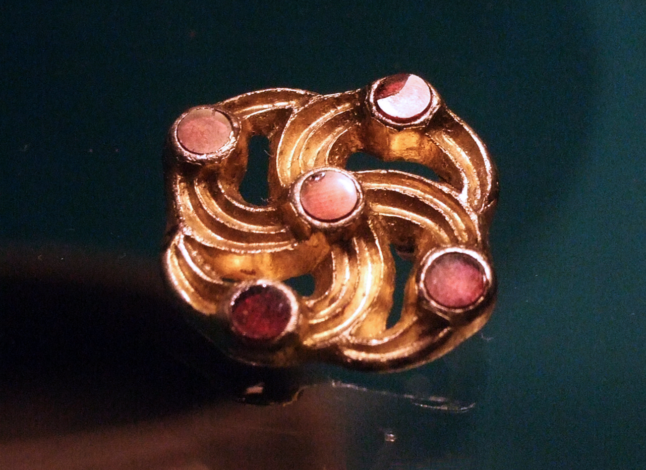 Lombard fibula with four stylized bird heads Poysdorf, District of Misteldorf, Lower Austria This whorled fibula of gilded silver, the birds' eyes inlaid with almandines, was recovered from Grave 4 at Poysdorf. This full-corpse grave was a disturbed burial of a woman stretched out on her back on a body board. Almost the entire set of jewellery of the deceased was recovered in its original position on her garments: this whorled fibula, a gold bracteate, glass beads of a necklace, a bronze hair pin next to her forehead, a belt buckle in the hip area, and between her knees a metal bead from her belt hanging. In addition there was a bowl with food, a knife, and a bone comb. The whorled fibula, long hair pin, and belt hanging are typical components of Germanic women's apparel. The deceased evidently belonged to one of the numerous Elbe Germanic groups who had settled in Austria and were designated as Lombards in the written sources beginning in the late 5th century. Photographed while on display from 22 August 2008 to 11 January 2009 in the exhibition "Die Langobarden. Das Ende der Völkerwanderung" at the Rheinisches LandesMuseum Bonn. On loan from the Prehistoric Division of the Naturhistorisches Museum Wien.